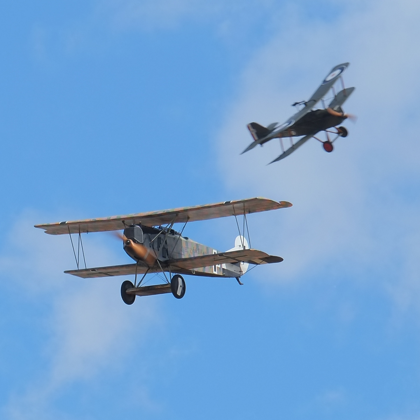 Fokker D.VII replica chased by SE5a